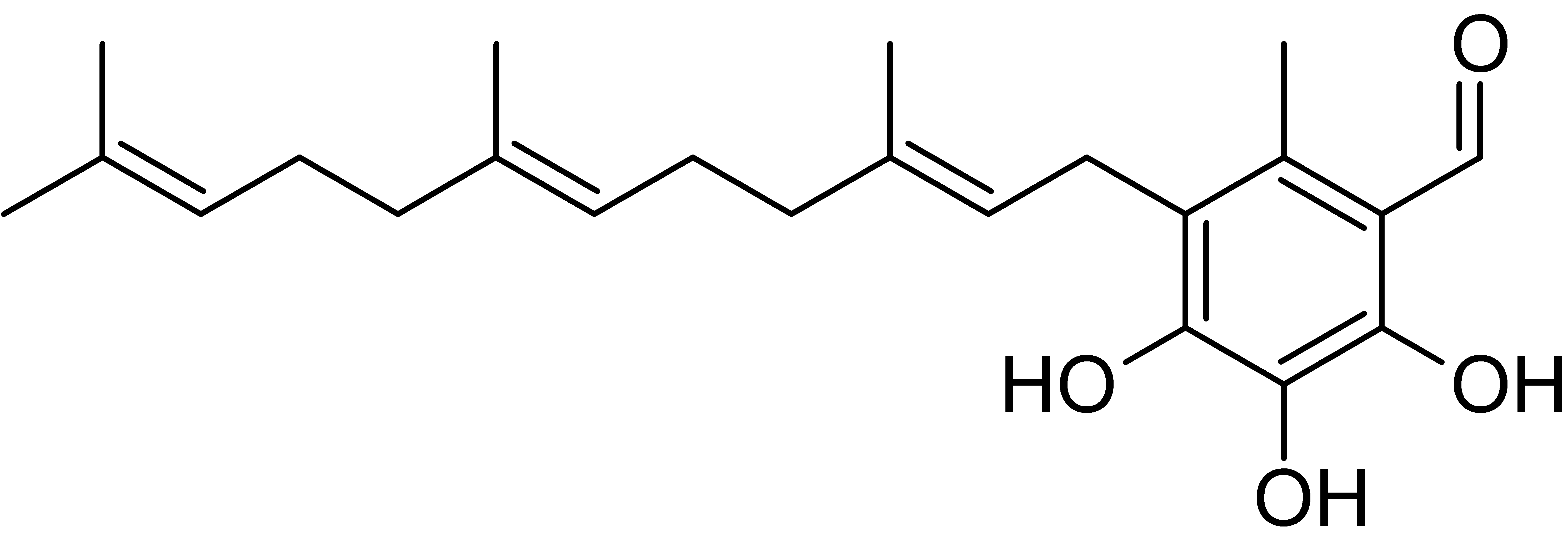 Skeletal structure of scutigeral.